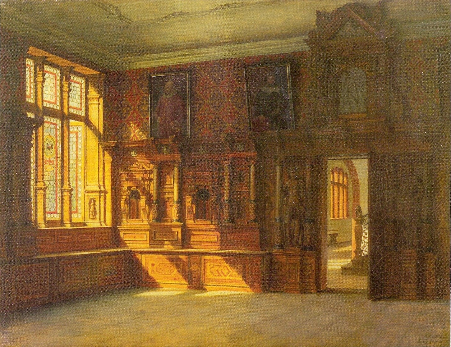 1881 architectural painting of the renaissance war room in the town hall of Lübeck. A work of the sculptor Tönnies Evers the younger, which burned during the Lübeck air raid 1942.